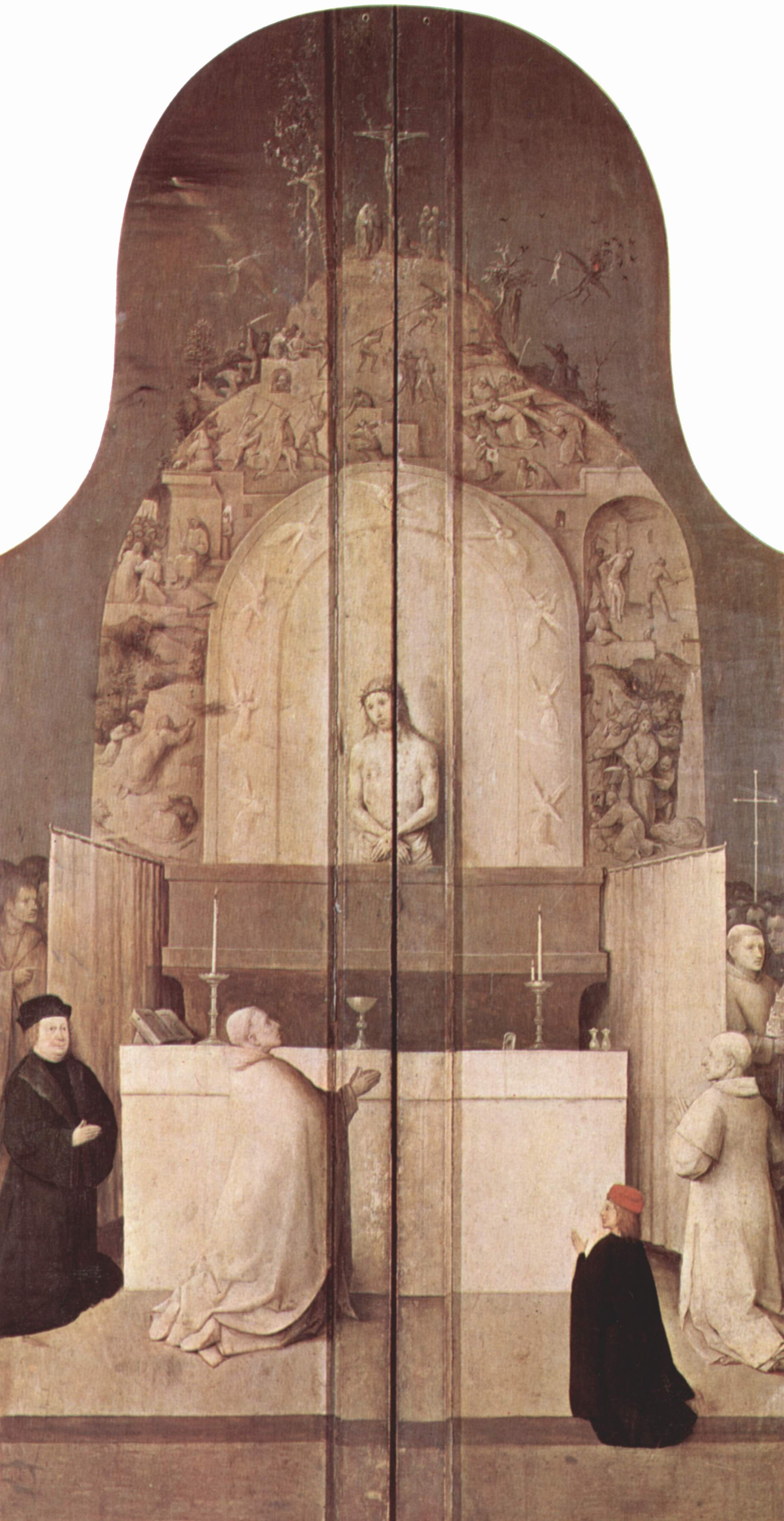 Exterior of the Adoration of the Magi Triptych.